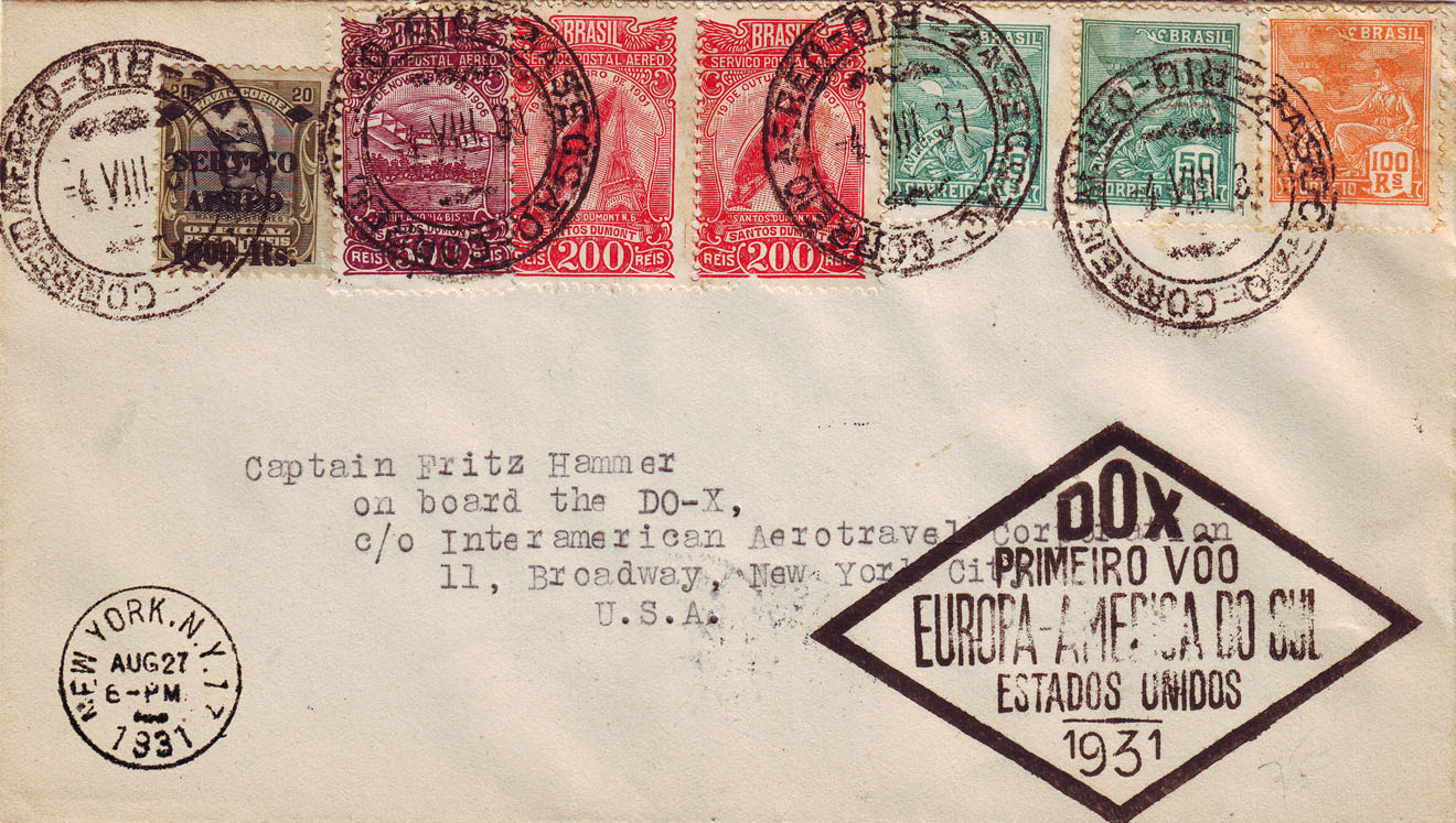 Dornier DO-X Rio de Janeiro to New York first flight cover w/Brazilian franking, August 5-27, 1931. The Cooper Collection of Aero Postal History These postage stamps are in the Public Domain as provided for in Brazilian Federal Statutes 3071/1916, art. 662, 5988/1973, art. 46, and 9610/1998, art. 115 as they were commissioned and published by the Brazilian government prior to 1983.